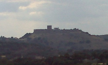 Noudar castle, Alentejo, Portugal - panoramic view